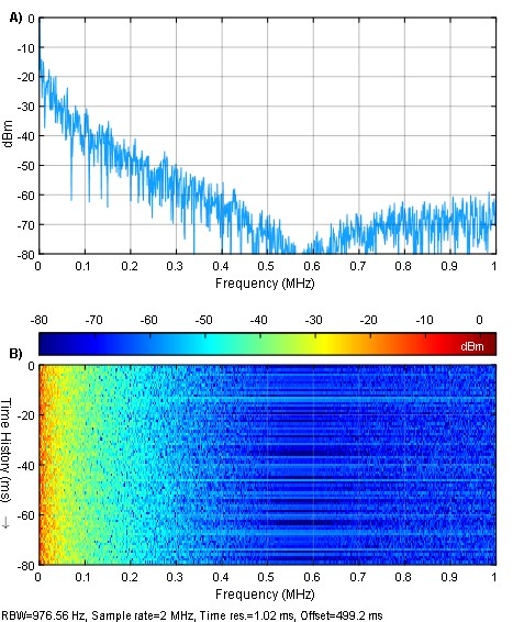 The chart shows two figures for EMI noise output using RPWM:one spectrum and one spectrogram.